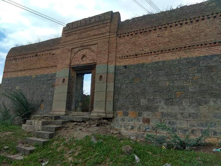 गाडीचा प्रवेशद्वार.